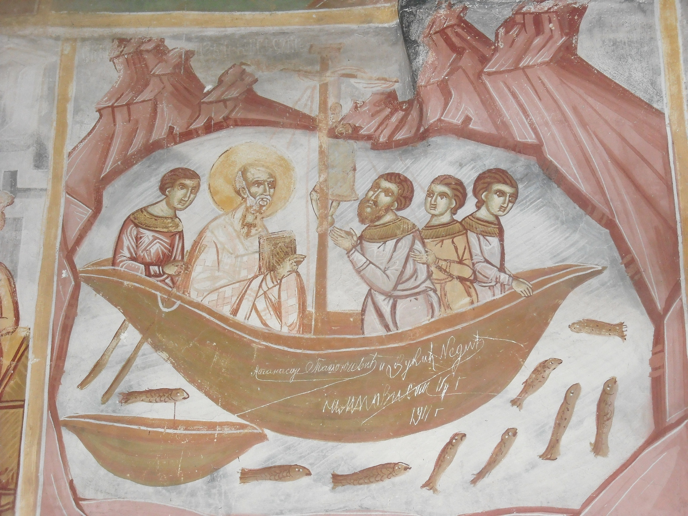 St Nicholas on a boat with fishermen - a fresco in the church of St. Nicholas of Shishevo, Matka, near Skopje, Republic of Macedonia